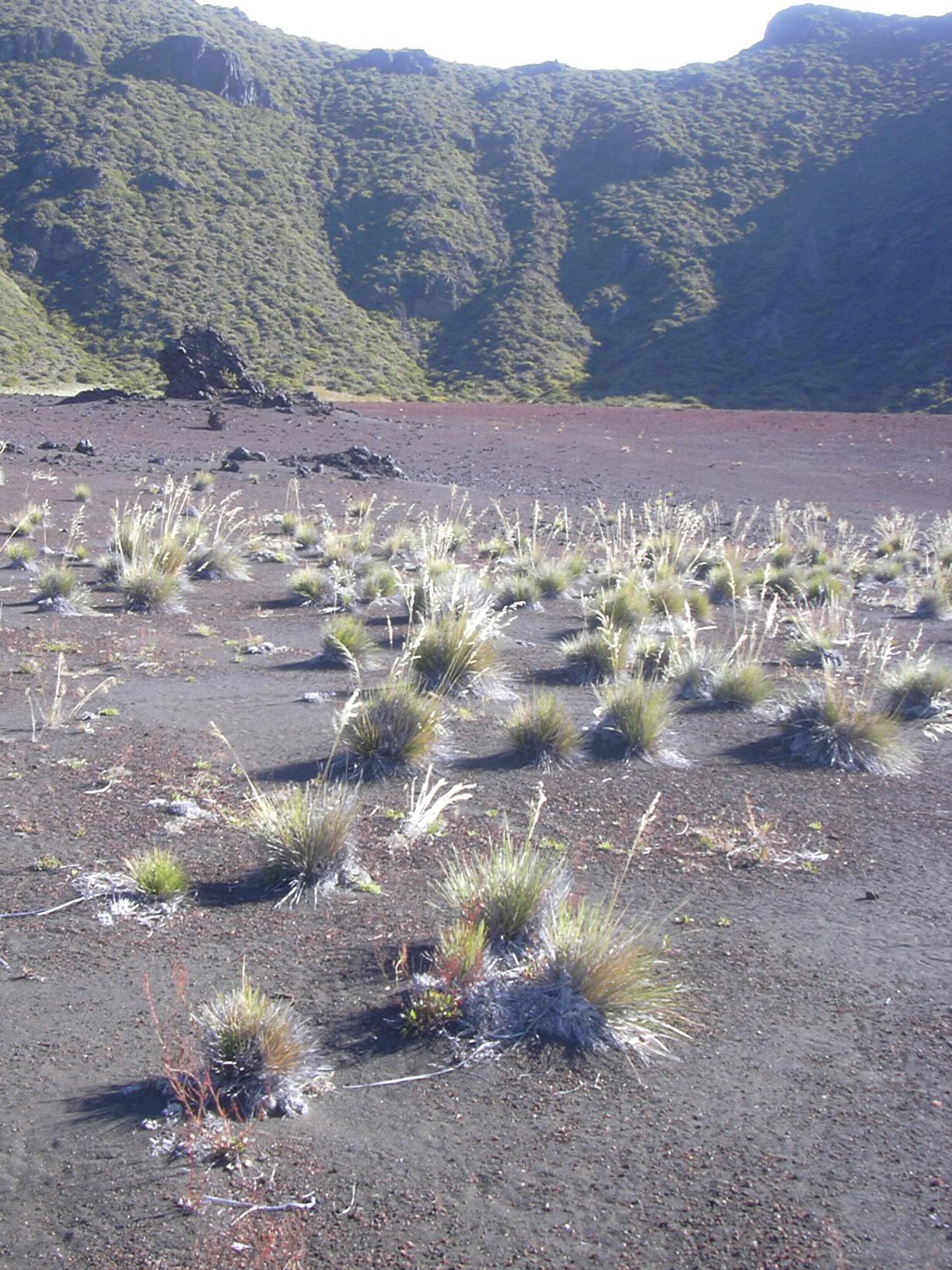 Deschampsia nubigena (habitat). Location: Maui, Sliding Sands Haleakala National Park